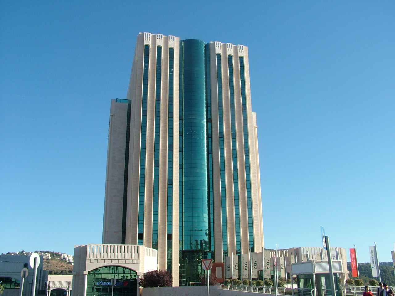 The Technology Garden, Jerusalem, Israel from the mall.